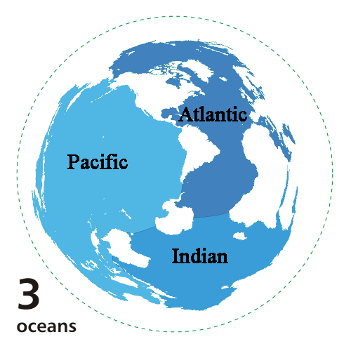 Ocean boundaries following the 3 oceans model. One of 4 images of the created by user Quizimodo and released in the public domain.